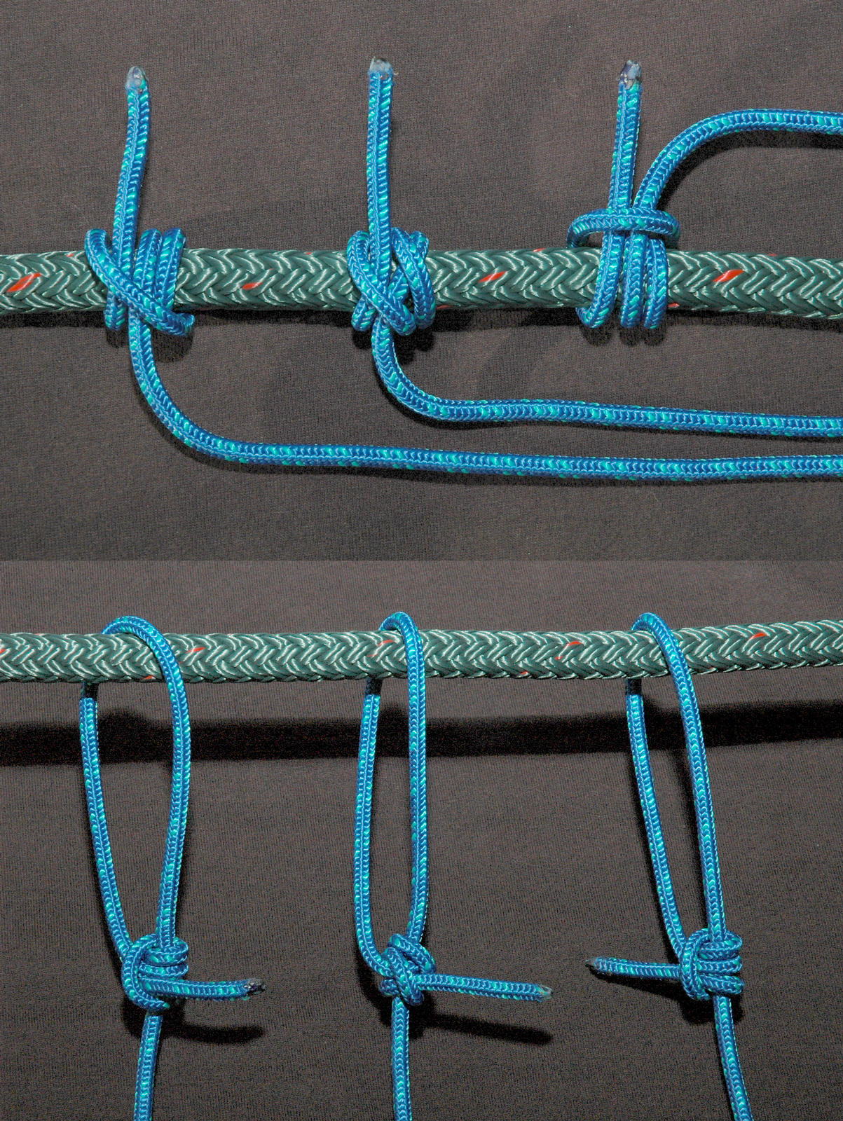 Top, LtoR: ABOK Rolling Hitch(1) #1734, Rolling Hitch(2) #1735, Magnus Hitch #1736; Bottom, Adjustable Hitch-like knots made with hitches above, LtoR: #1800, #1790 (#1800- reversed).